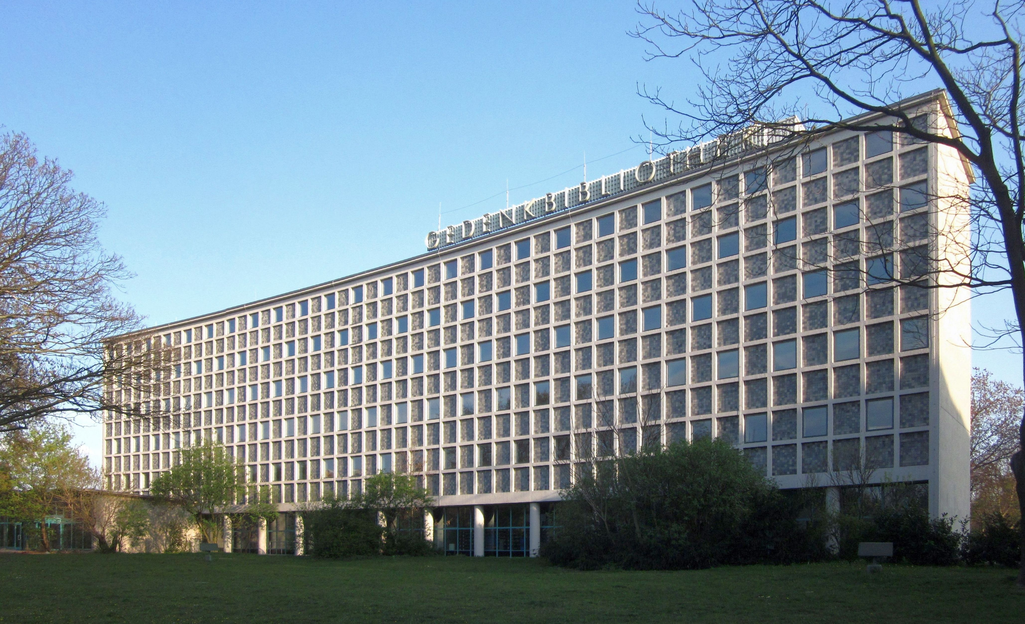 The Amerika-Gedenk-Bibliothek (American Memorial Library) at Blücherplatz No. 1 in Berlin-Kreuzberg. The building was constructed from 1952 to 1957 to designs by the architects Fritz Bornemann, Willy Kreuer, Gerhard Jobst, and Hartmut Wille. It has been designated as a cultural heritage monument.